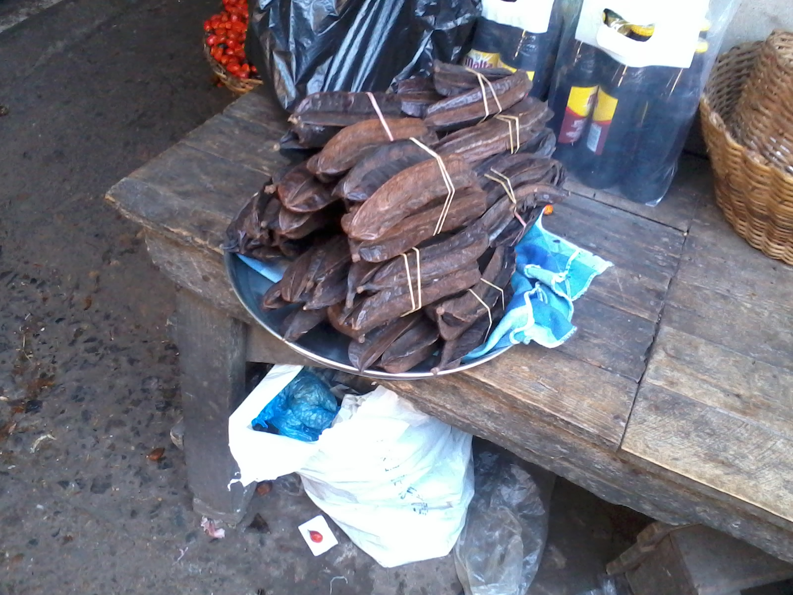 Prekese (the Ghanaian name for the fruits of Tetrapleura tetraptera from the subfamily of the Mimosoideae) on a market in Ghana.